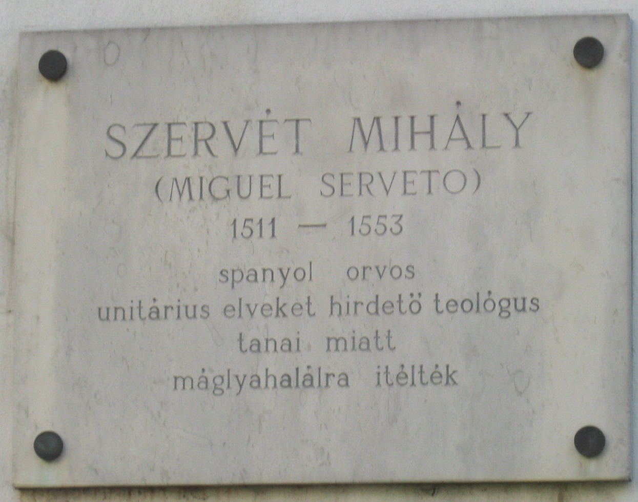 Commemorative plaque of Miguel Servet in Budapest District XVIII, Szervét Mihály Square No 1